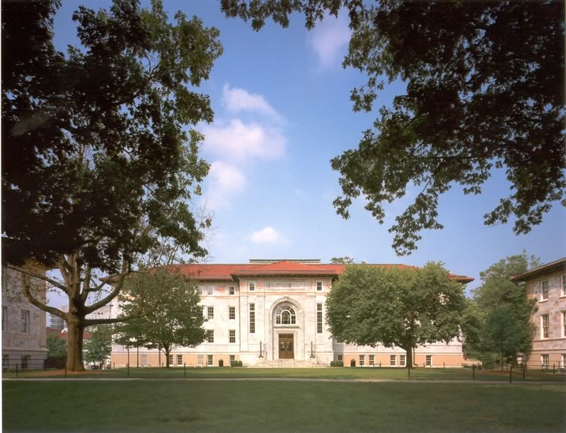 Candler Library of Emory University